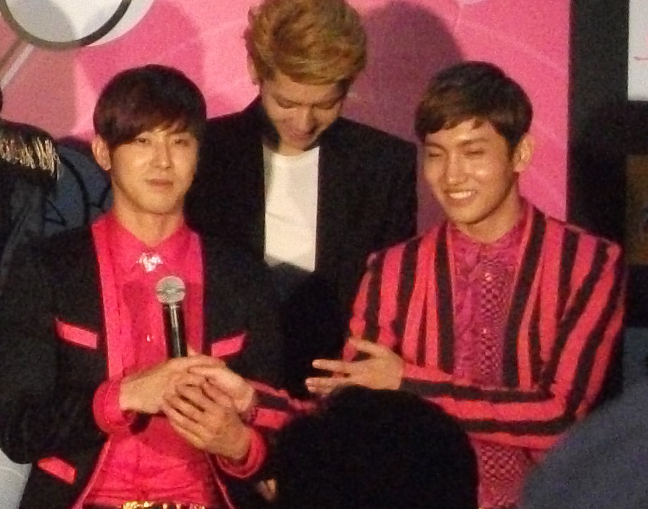 TVXQ at press conference of SMTown Live World Tour III in Bangkok ALSO KRIS OF EXO-M IN THE BACKGROUND